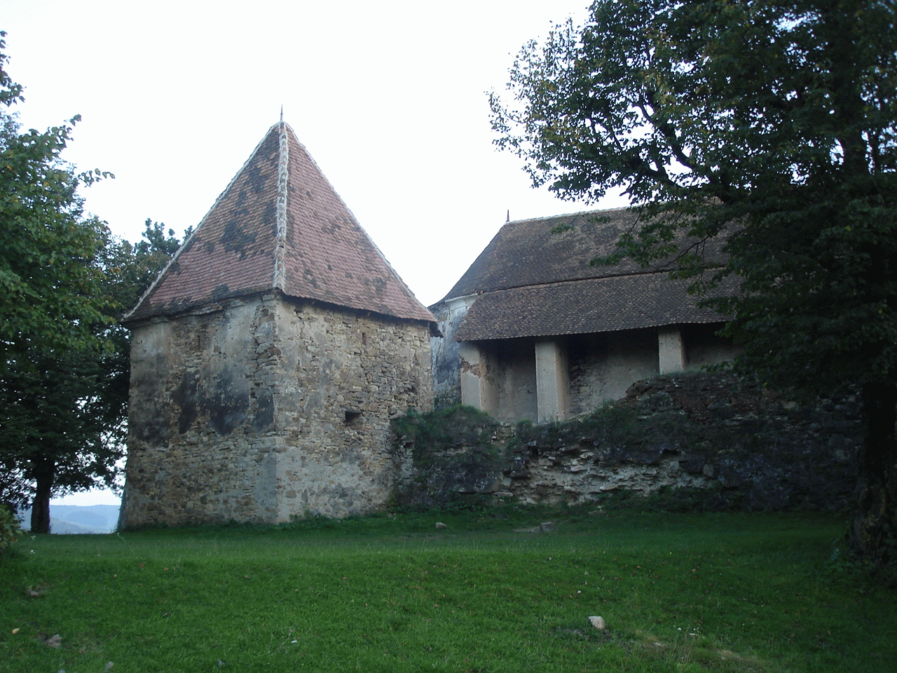 The Saxon church in Felmer (Transylvania, Romania). Lateral view